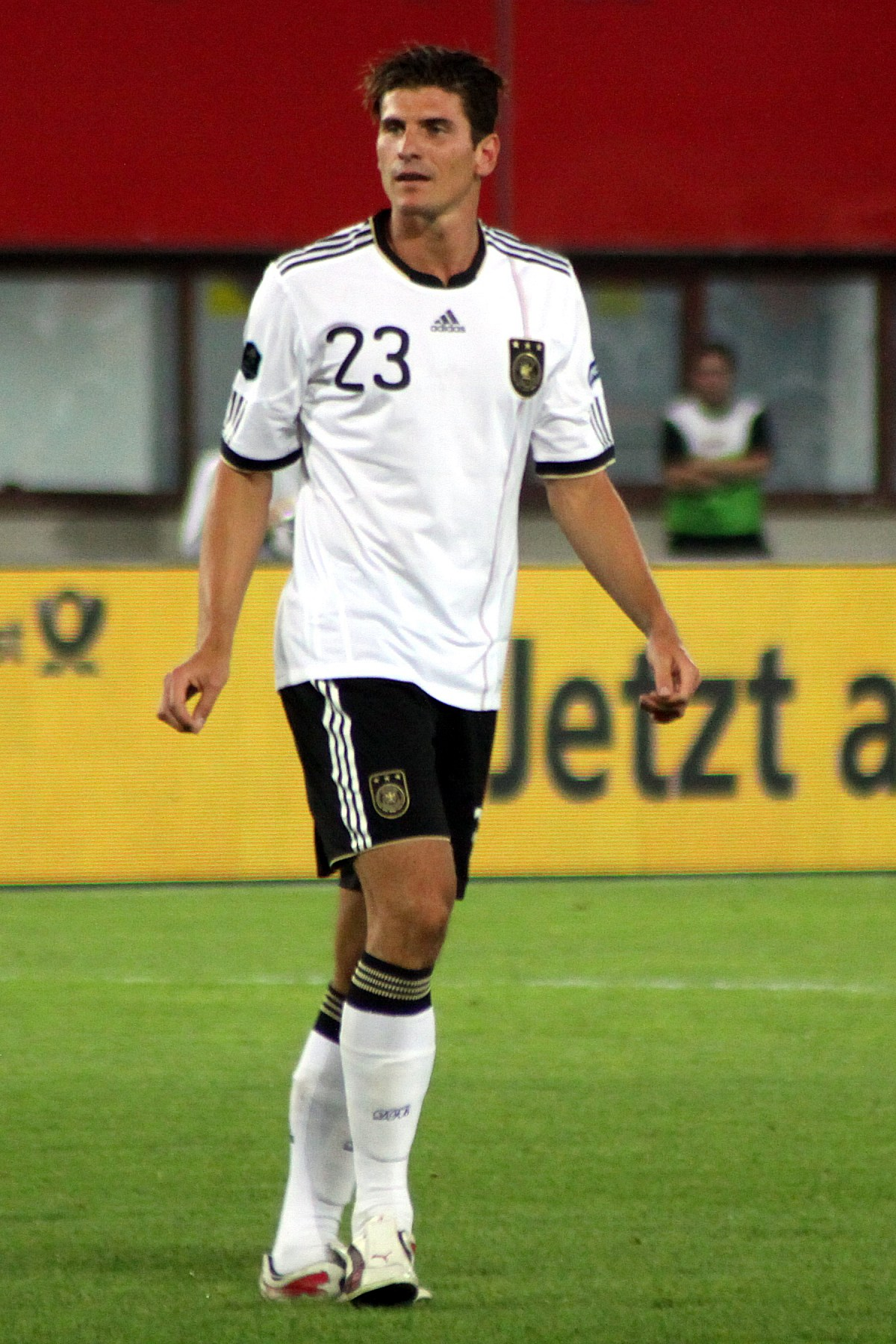 Mario Gómez (FC Bayern Munich), german national football team